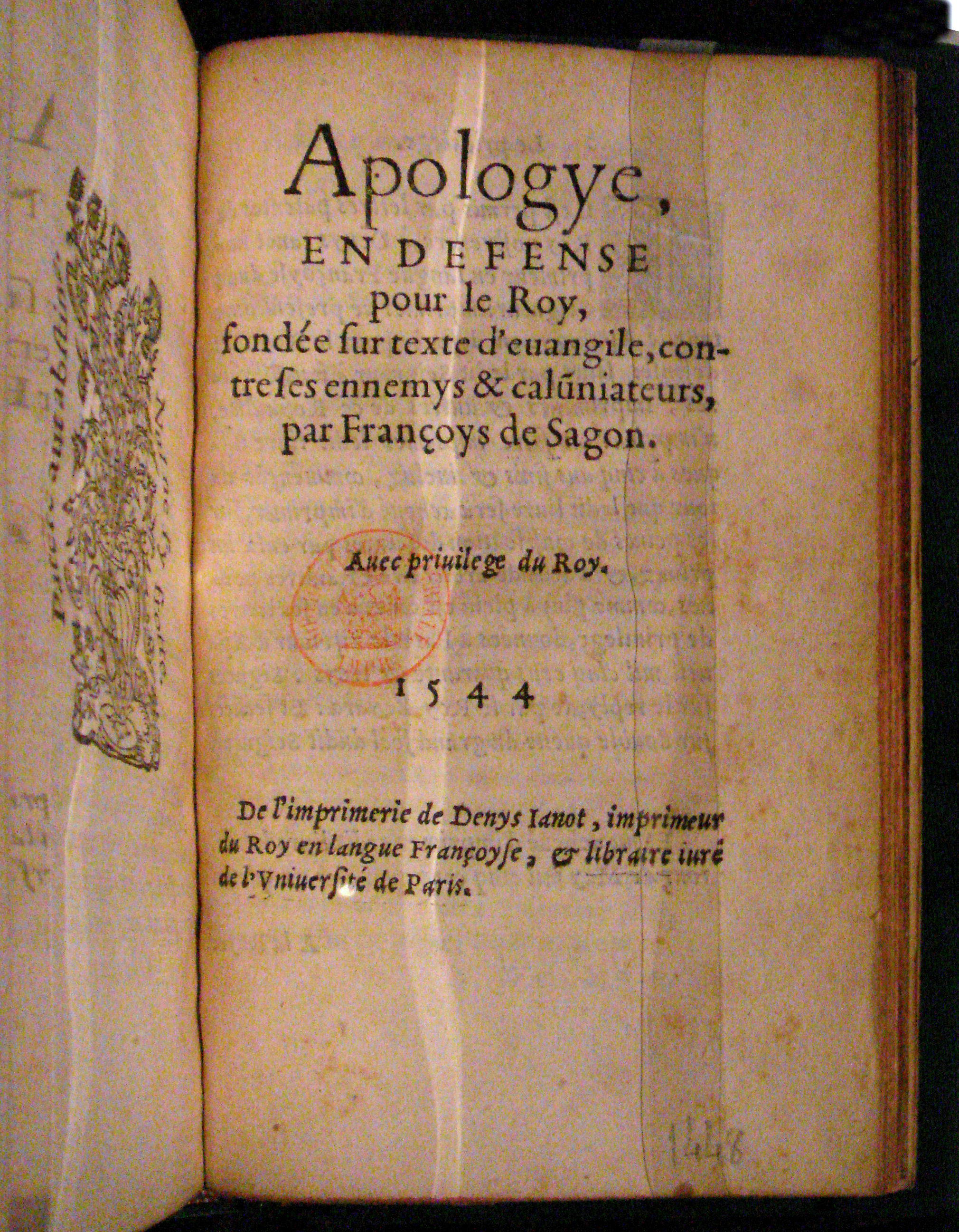 Apologye_en_defense_pour_le_Roy_fondee_sur_texte_d_evangile_contre_ses_enemis_et_calomniateurs_Francois_Sagon_1544.